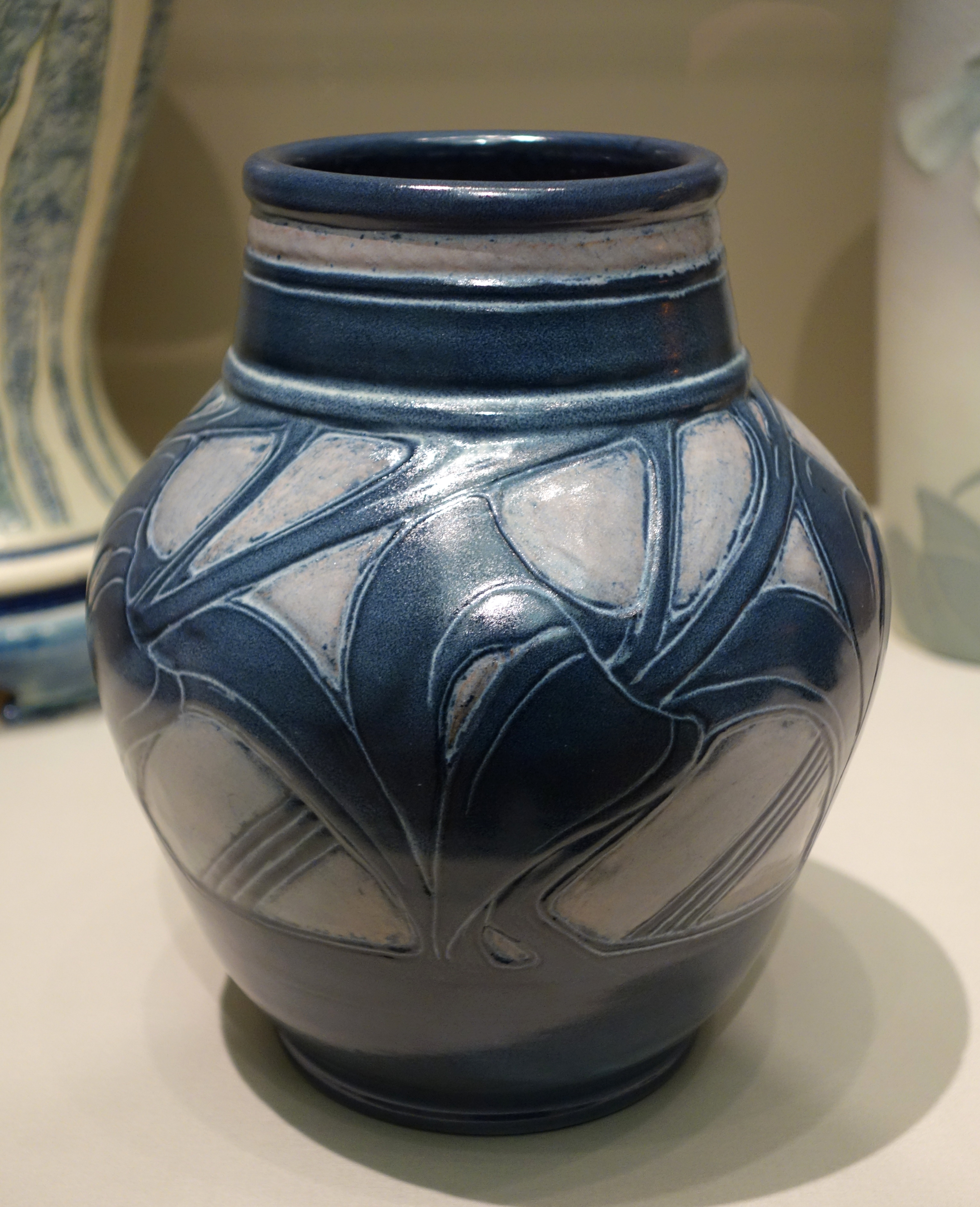 Exhibit in the Cincinnati Art Museum, Cincinnati, Ohio, USA. This artwork is in the public domain because it was first published in the United States before 1923.